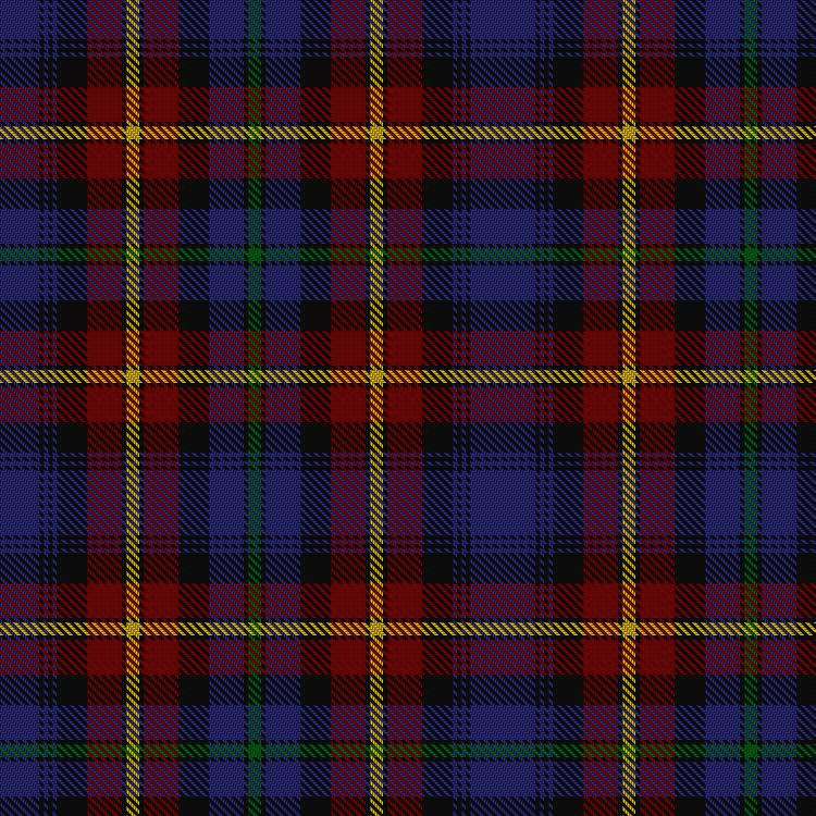 This Tartan represents the heritage of the Dryer Family and their link to several of the clans in Scotland. The Crimson Red represents the blood that has been spilled by Dryer men throughout the world, the Green represents the prairies both in Scotland and in the New World. The Yellow represents the ribbons in the trees for Dryer men who shall never return from Battle, and the Blue represents the oceans of the world that have been sailed by Dryers and at the same time separated the members of the family during times of war.